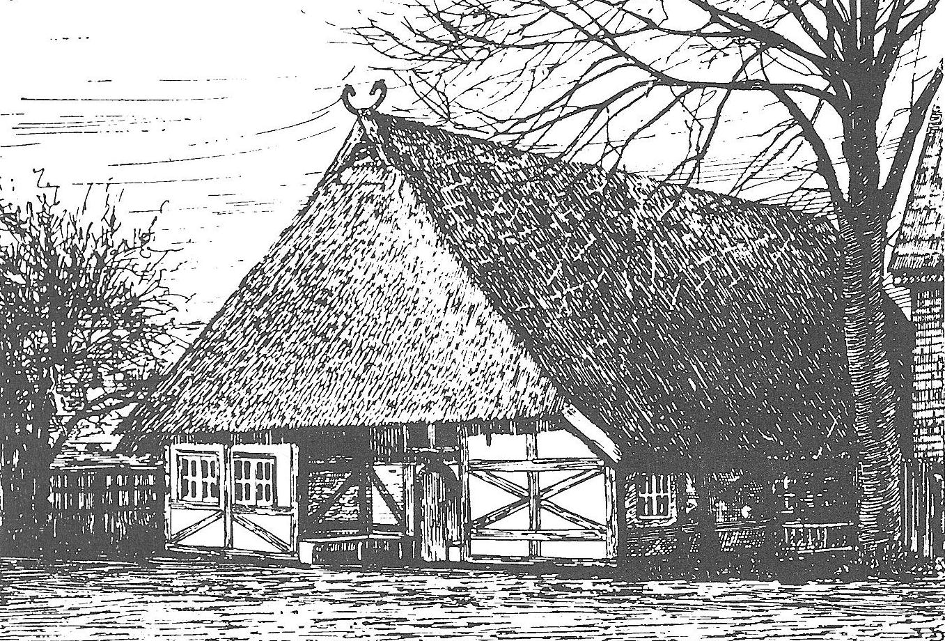 Siechenhaus vor Dassow